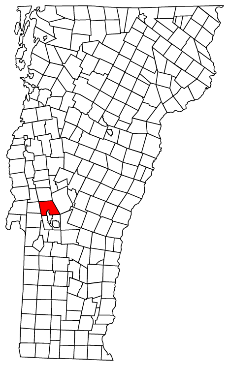 Description: Map of Vermont towns with Pittsford highlighted Source: Map created by Jared C. Benedict on 26 March 2004. Copyright: © Jared C. Benedict.